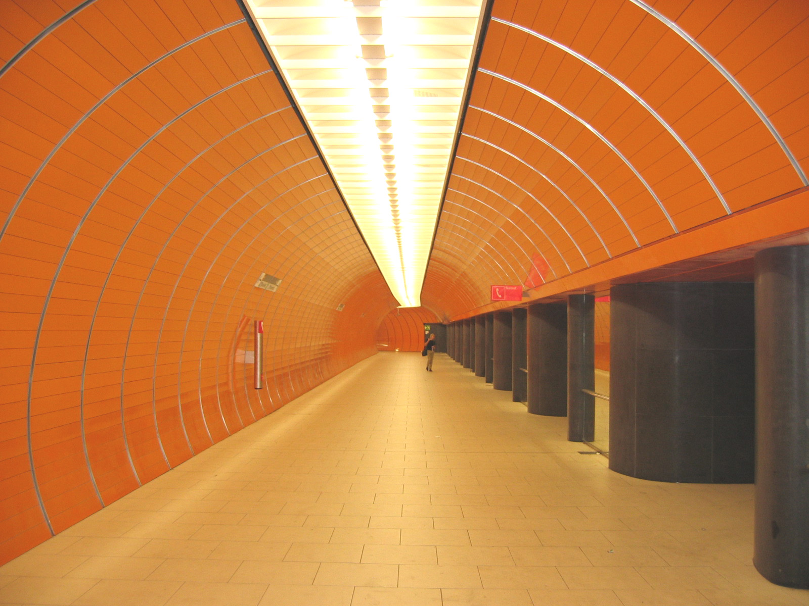 subway station munich Marienplatz - enlargement tube